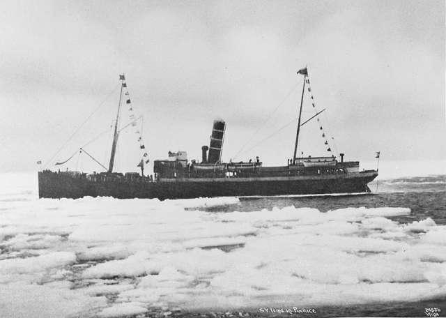 Norwegian passenger ship DS Irma. This ship was employed in the Norwegian coastal express service (Hurtigruten) from 1931 to 1944.